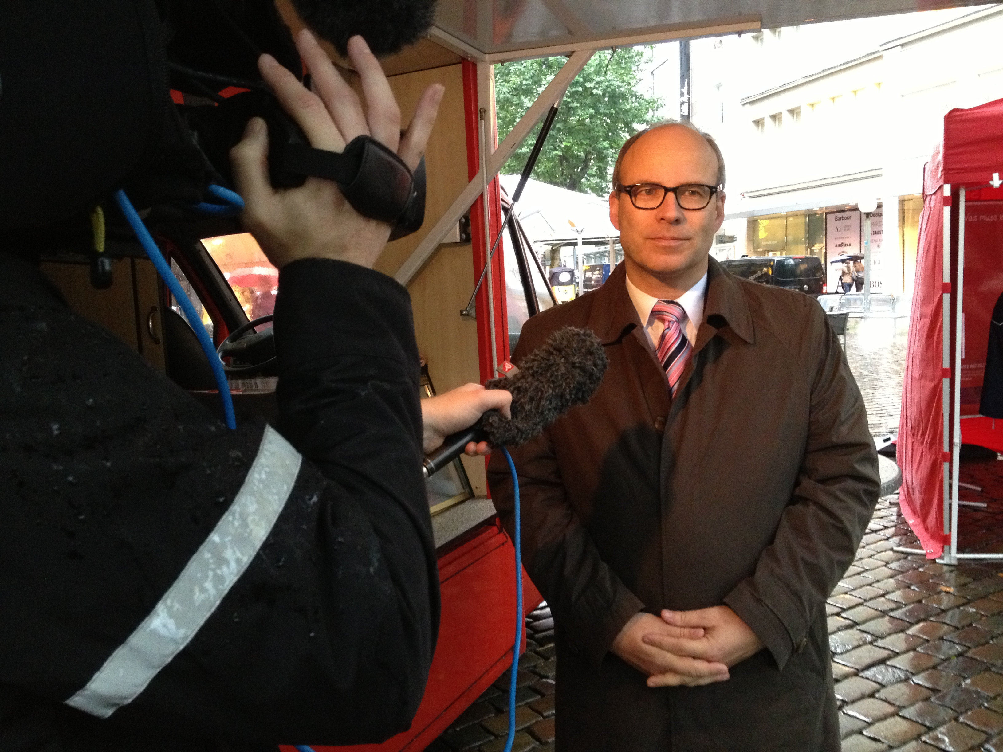 Ties Rabe (SPD), State Minister in the Senate Scholz I, Senate Scholz II and Senate Tschentscher I, in 2012